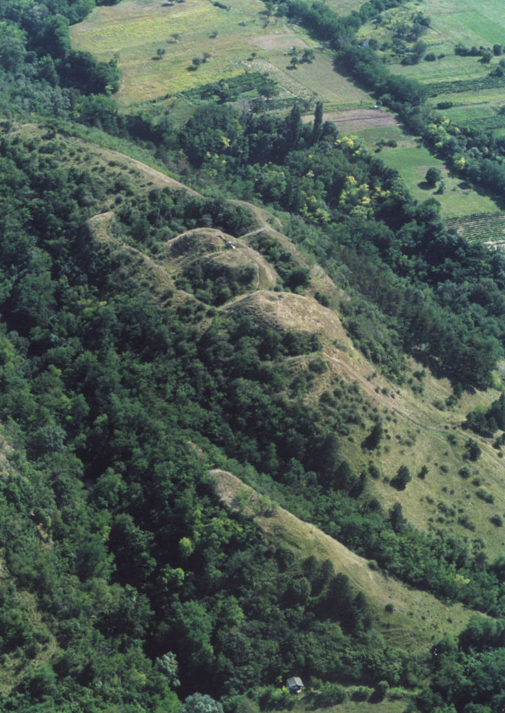 Neszmély castle - Hungary - Europe